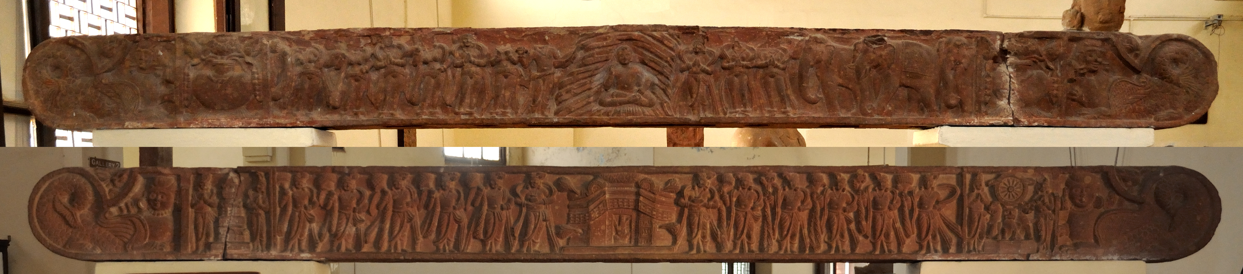 Indrasala architrave, Mathura Museum